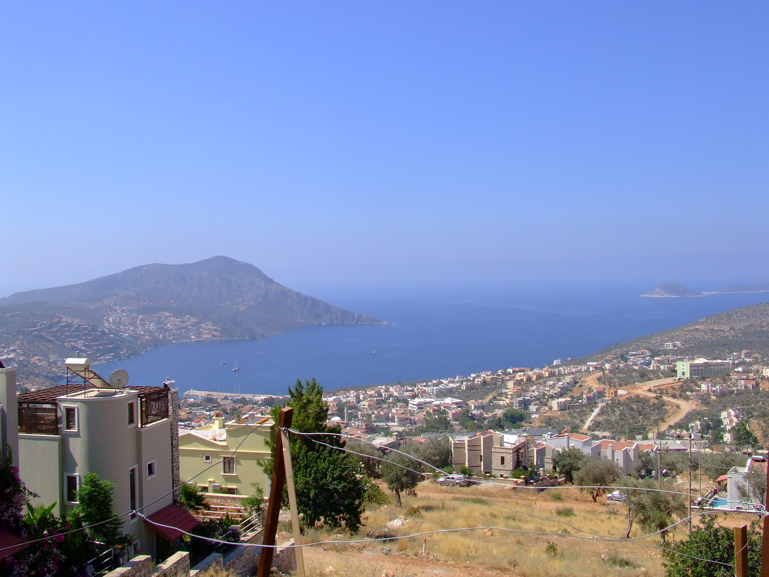 The bay of Kalkan, Turkey